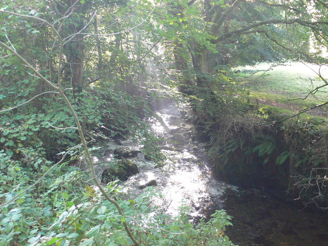 Sun streaming onto the River Rhaeadr North west of Llanrhaeadr ym Mochnant